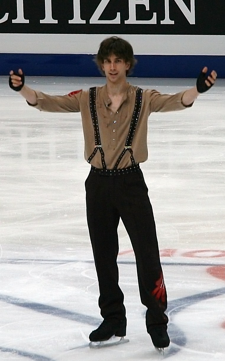 Kutay Eryoldaş at the 2011 World Figure Skating Championships.